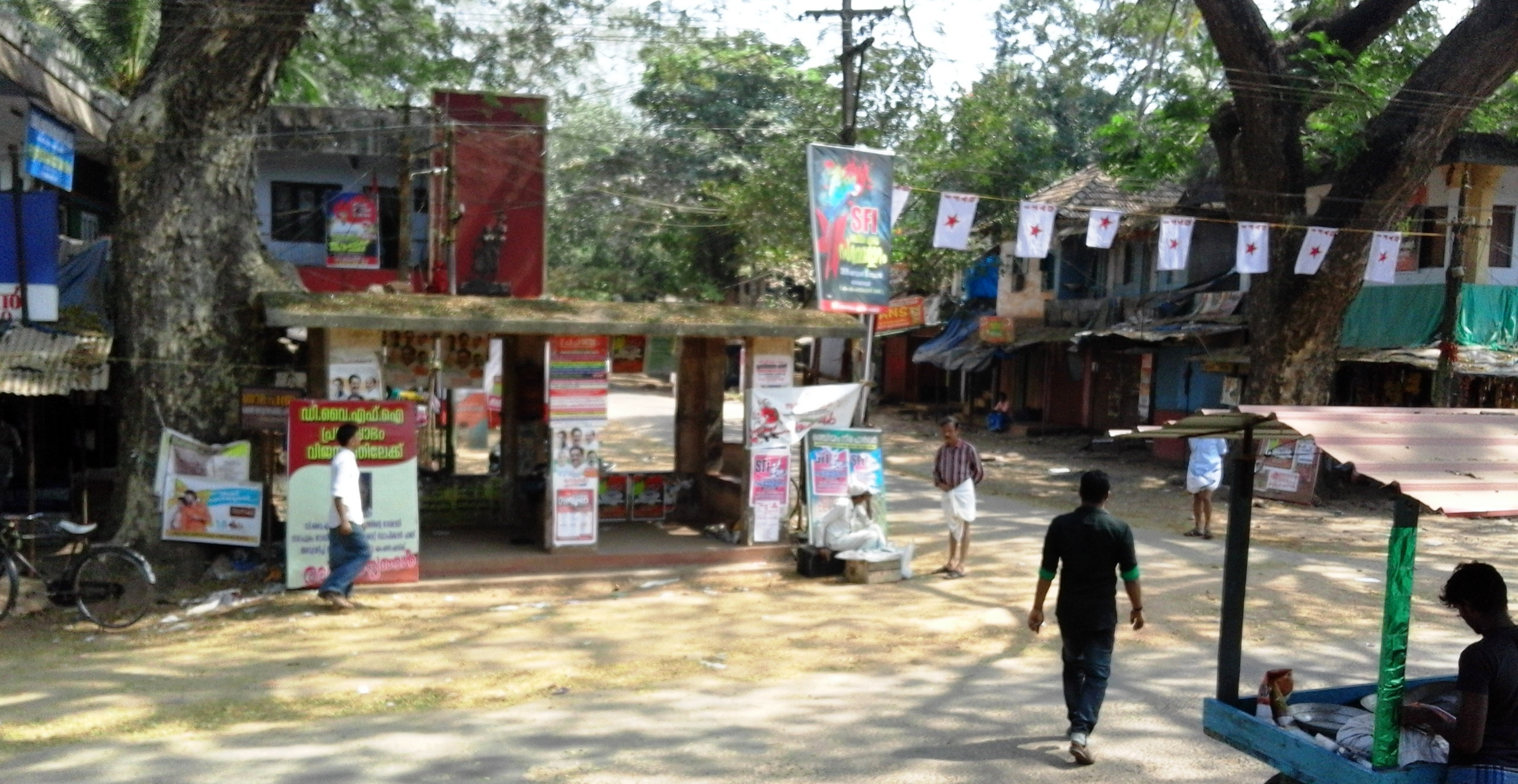 Madappally, Vadagara, Kerala, India.